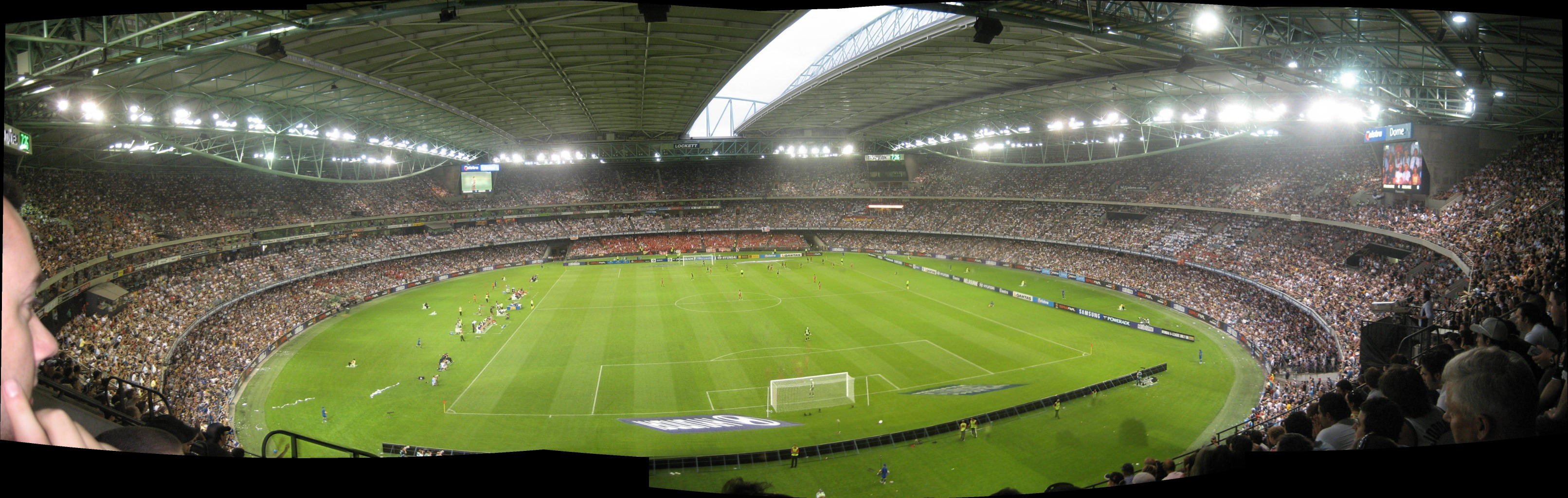 A-league grand final, Melbourne Copyright (c) 2007 ROBERT HILL. Permission is granted to copy, distribute and/or modify this document under the terms of the GNU Free Documentation License, Version 1.2 or any later version published by the Free Software Foundation; with no Invariant Sections, no Front-Cover Texts, and no Back-Cover Texts. A copy of the license is included in the section entitled "GNU Free Documentation License".